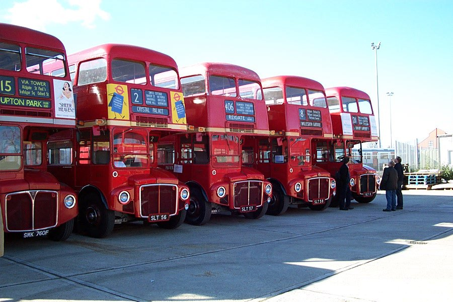 A row of notable Routemaster buses, pictured at the London Transport Museum's depot in Acton, west London, during a Routemaster themed open day. From left to right, they are: The last production Routemaster, RML2760(SMK 760F) Prototype Routemaster RM1 (SLT 56) Prototype Routemaster RM2 (SLT 57) Prototype Routemaster RML3 (SLT 58) One of the first production Routemasters (VLT ?)